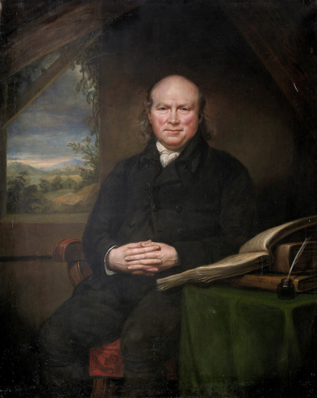 Thaddeus Connellan oil on canvas 127.5 x 103.2 cm signed t.r.: James Northcote pinxt. 1824